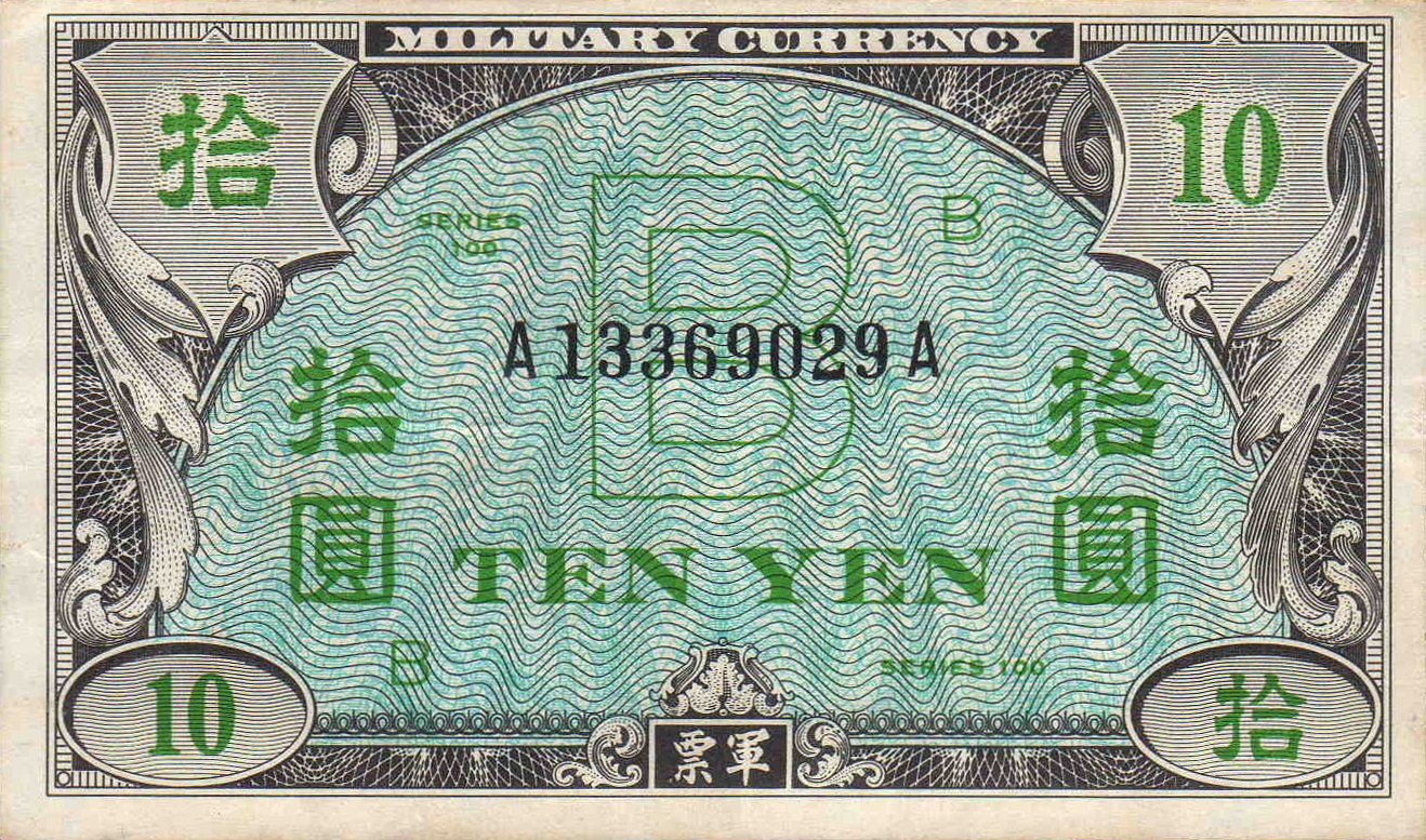 B yen military scrip bill used in US-Occupied Okinawa.